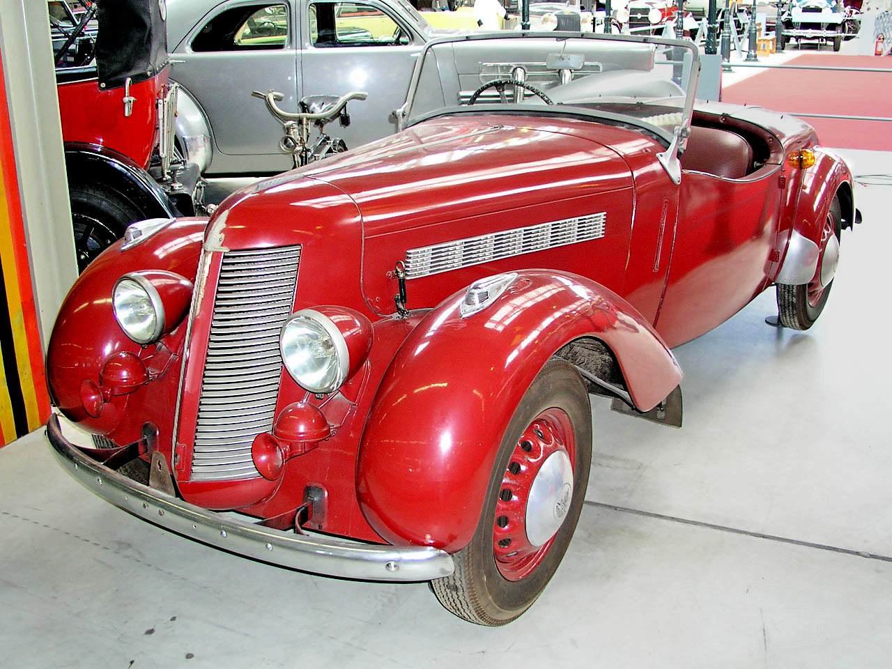 front-wheel drive car made in Belgium by Minerva-Imperia SA; it combined an Adler Trumpf Junior-type chassis with an engine originally intended for the Amilcar Compound; left front-side view